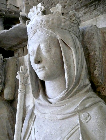 Tomb Ermentrude of Orléans, queen consort of Charles II of France in the Basilica of Saint-Denis.